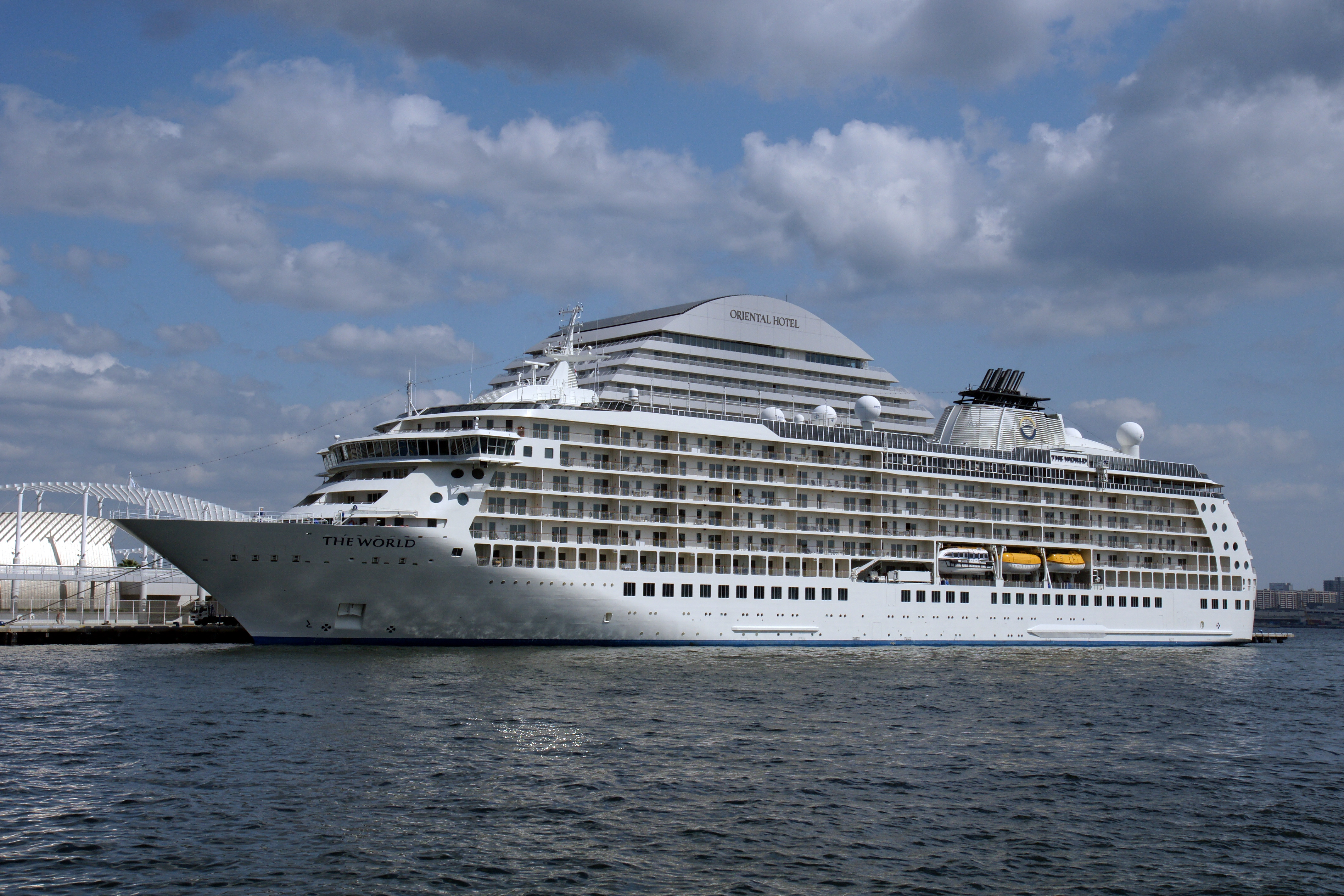 "The World" who anchors at the wharf "Nakatottei" of the Kobe harbor (Kobe, Hyogo prefecture, Japan)